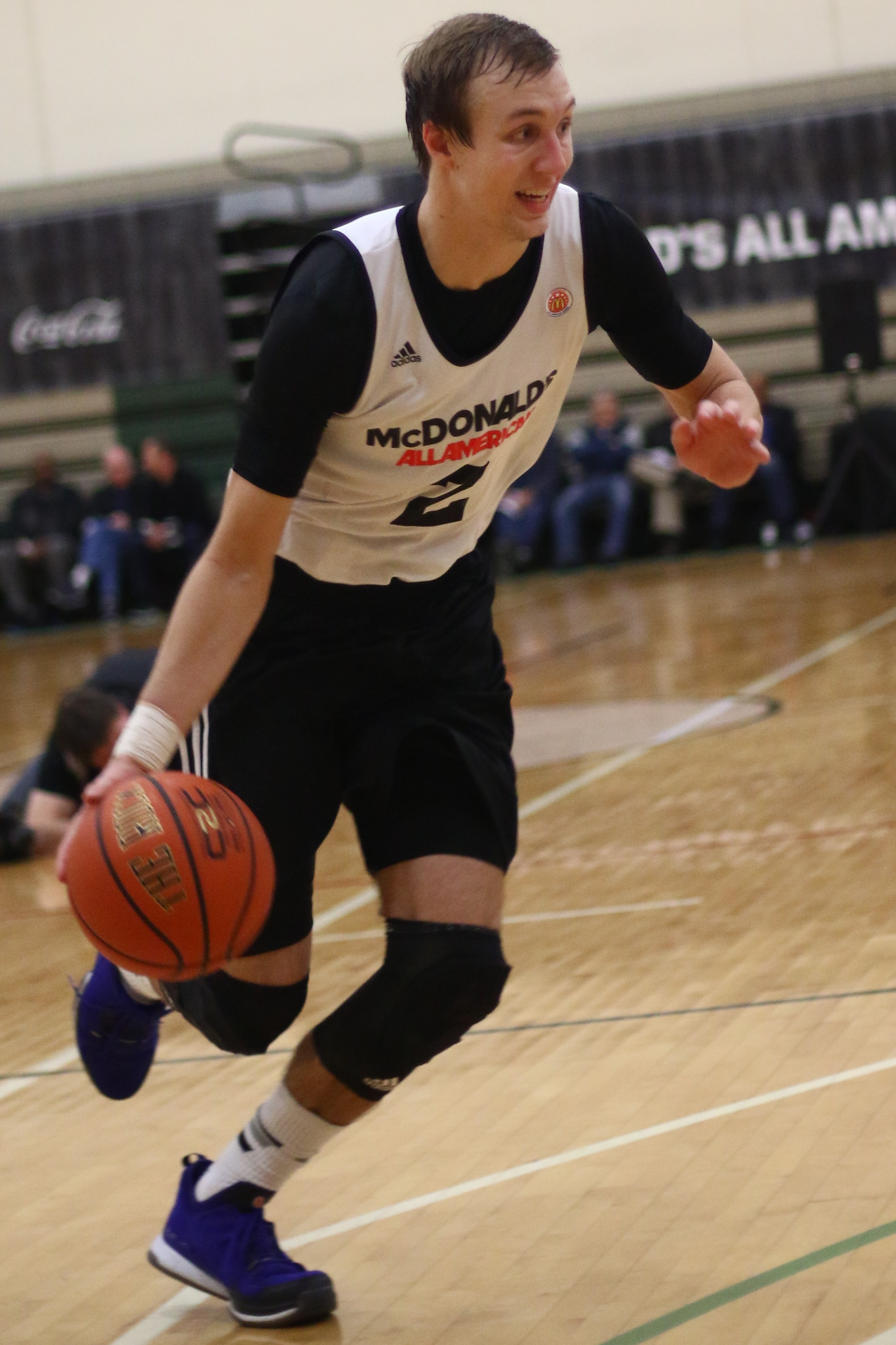 Luke Kennard in the w:2015 McDonald's All-American Boys Game closed practice